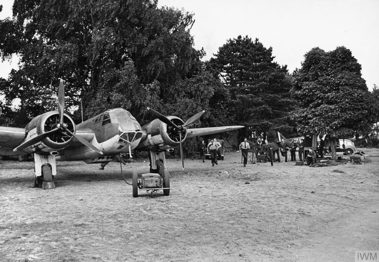 RAF Fighter Command 1940 Blenheim Mk IFs of No. 25 Squadron at Martlesham Heath, 25 July 1940. The foreground aircraft is equipped with AI Mk III radar. The squadron was used for night fighter operations.